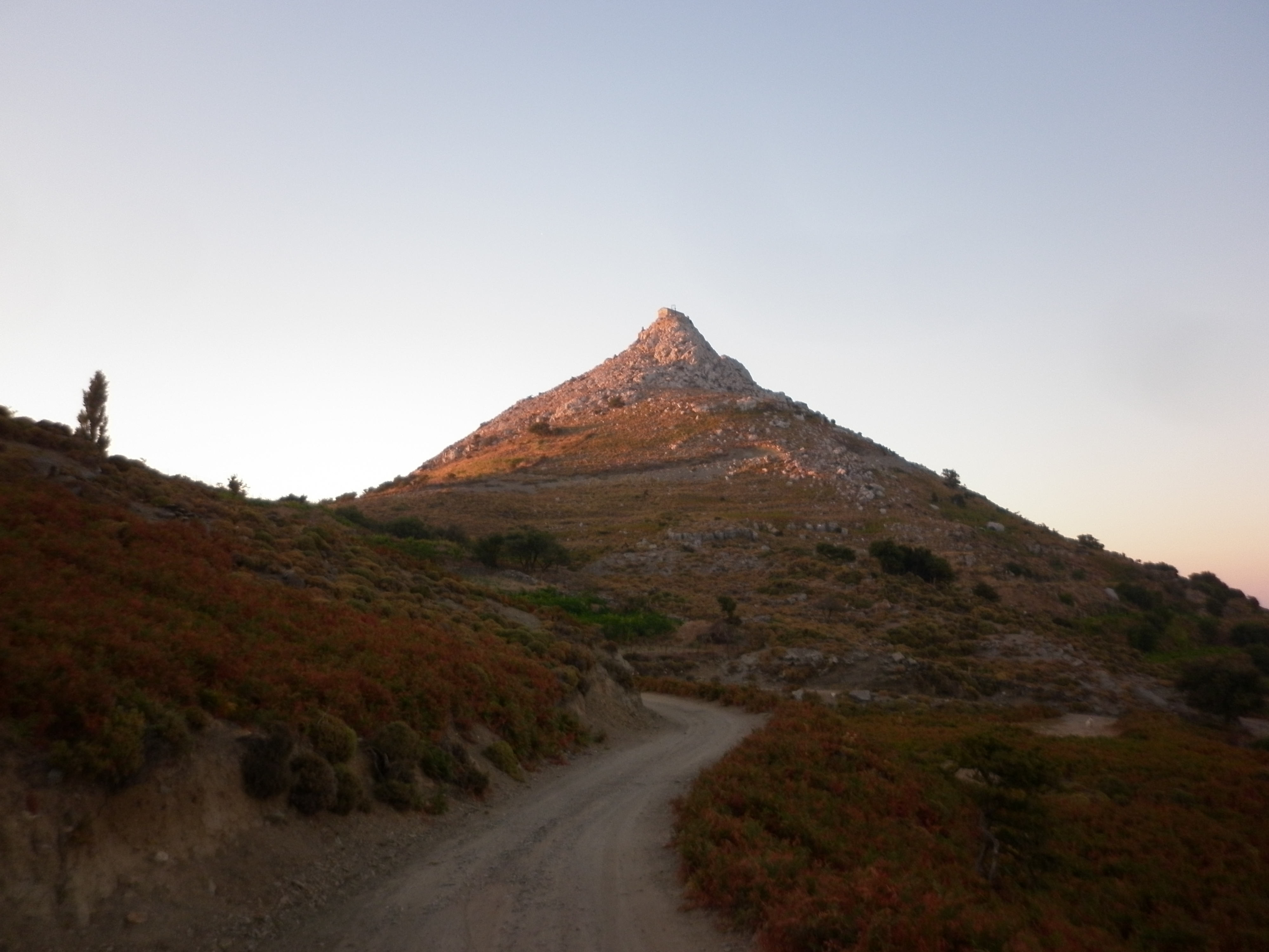 This is a photography of Natura 2000 protected area with ID GR4120004